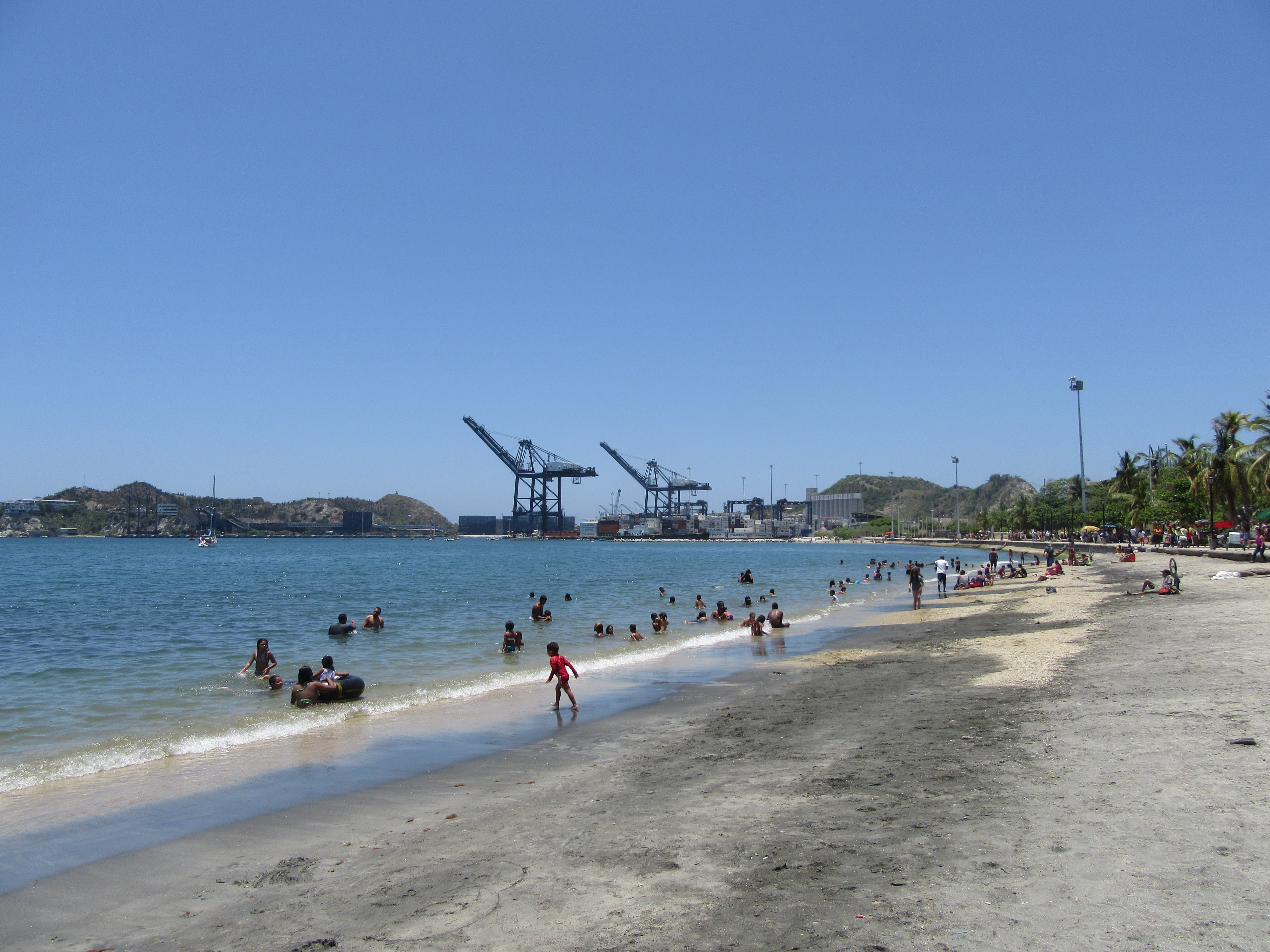 Santa Marta